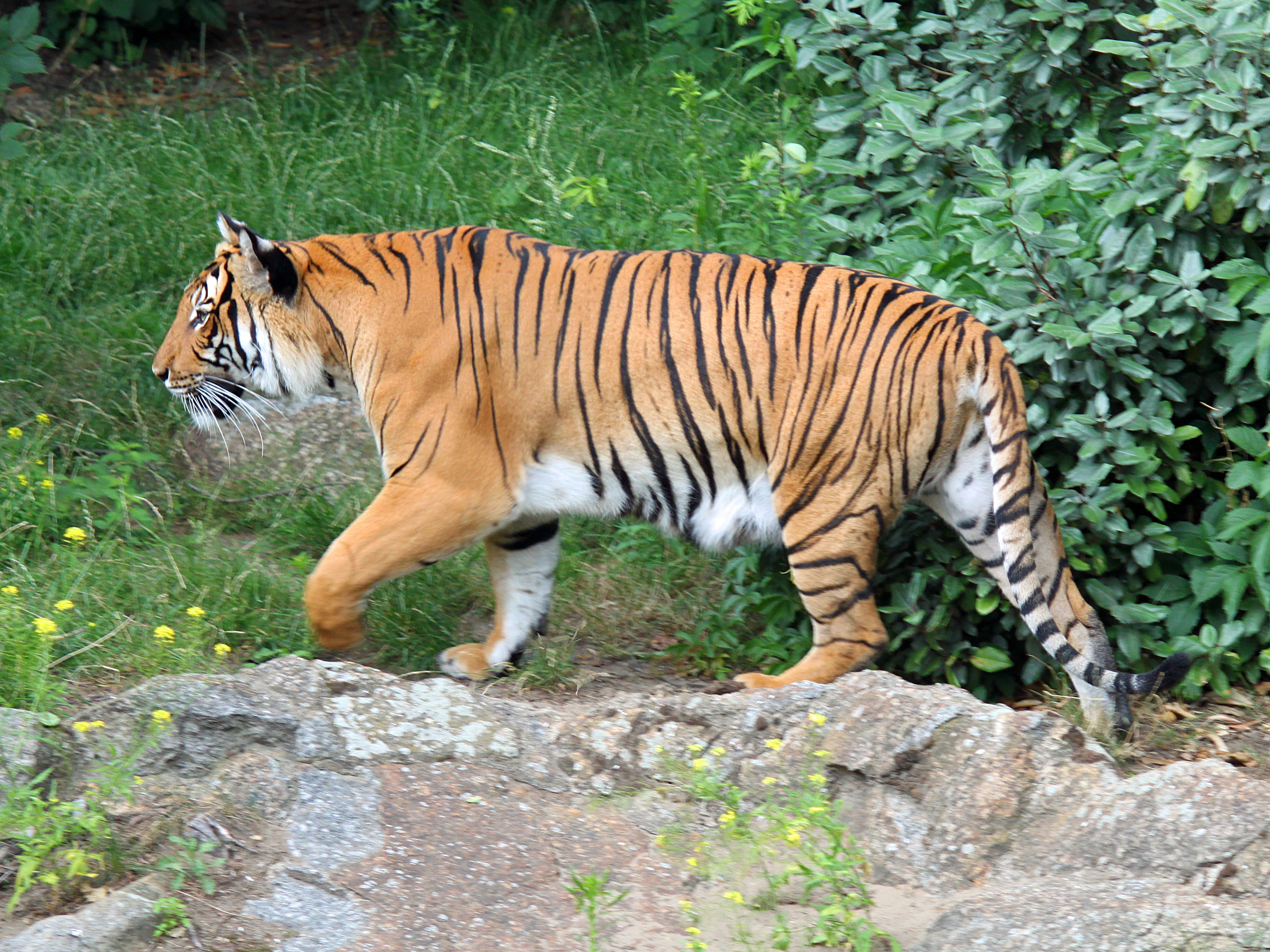 Zoological Garden Berlin, Germany.